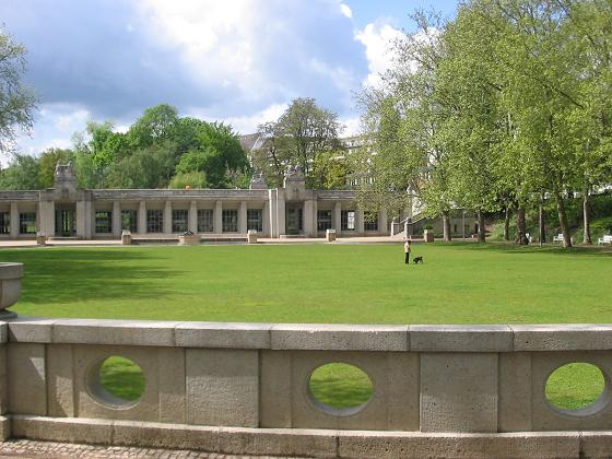 The "Rudolph-Wilde-Park" in Berlin; view from the "Carl-Zuckmyer-Bridge" to the eastern part with the underground station "Rathaus Schöneberg"